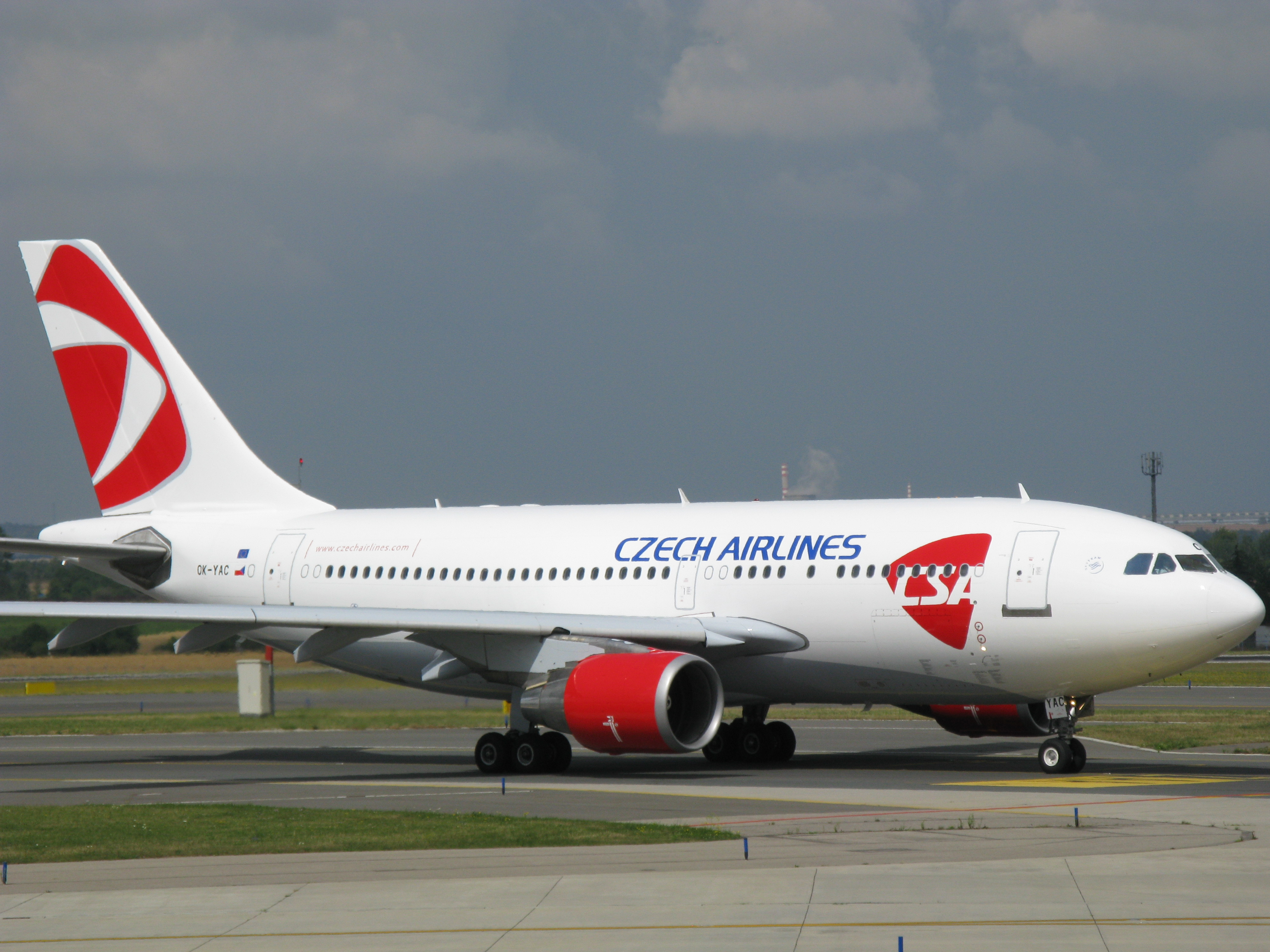 PRG Airport